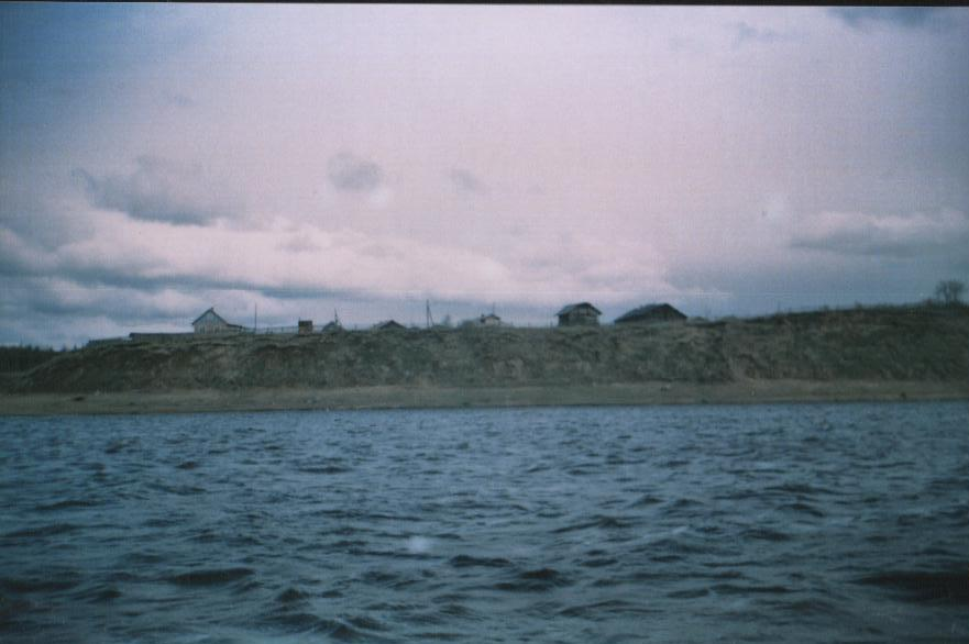 Konetsgorye